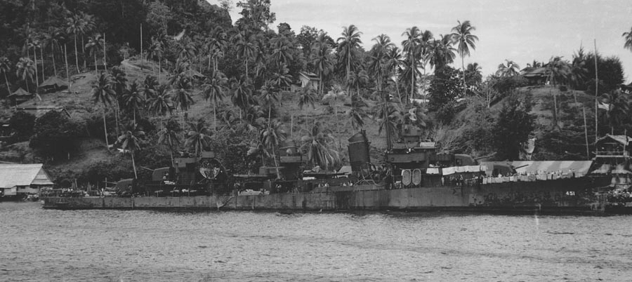 The U.S. Navy destroyer USS Chevalier (DD-451) moored to the Government Wharf, Tulagi, Solomon Islands, on 6 July 1943. Her bow was damaged while rescuing the crew of the sinking USS Strong (DD-467) during the 5 July 1943 Battle of Kula Gulf, and her 127 mm/38 gun mount No. 3 shows the effects of a hang-fire, explosion and fire immediately after that rescue was completed.